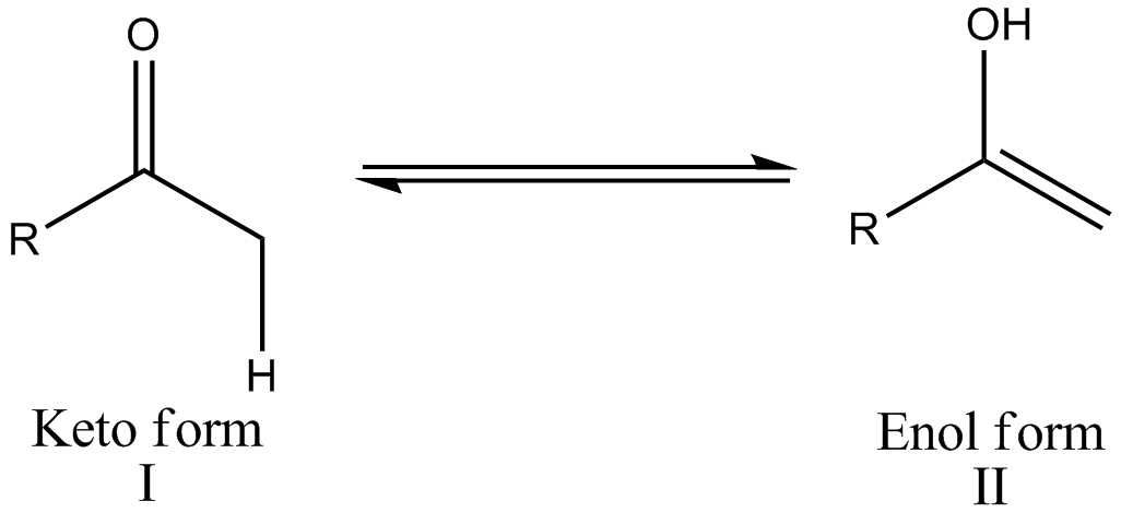 Reaction